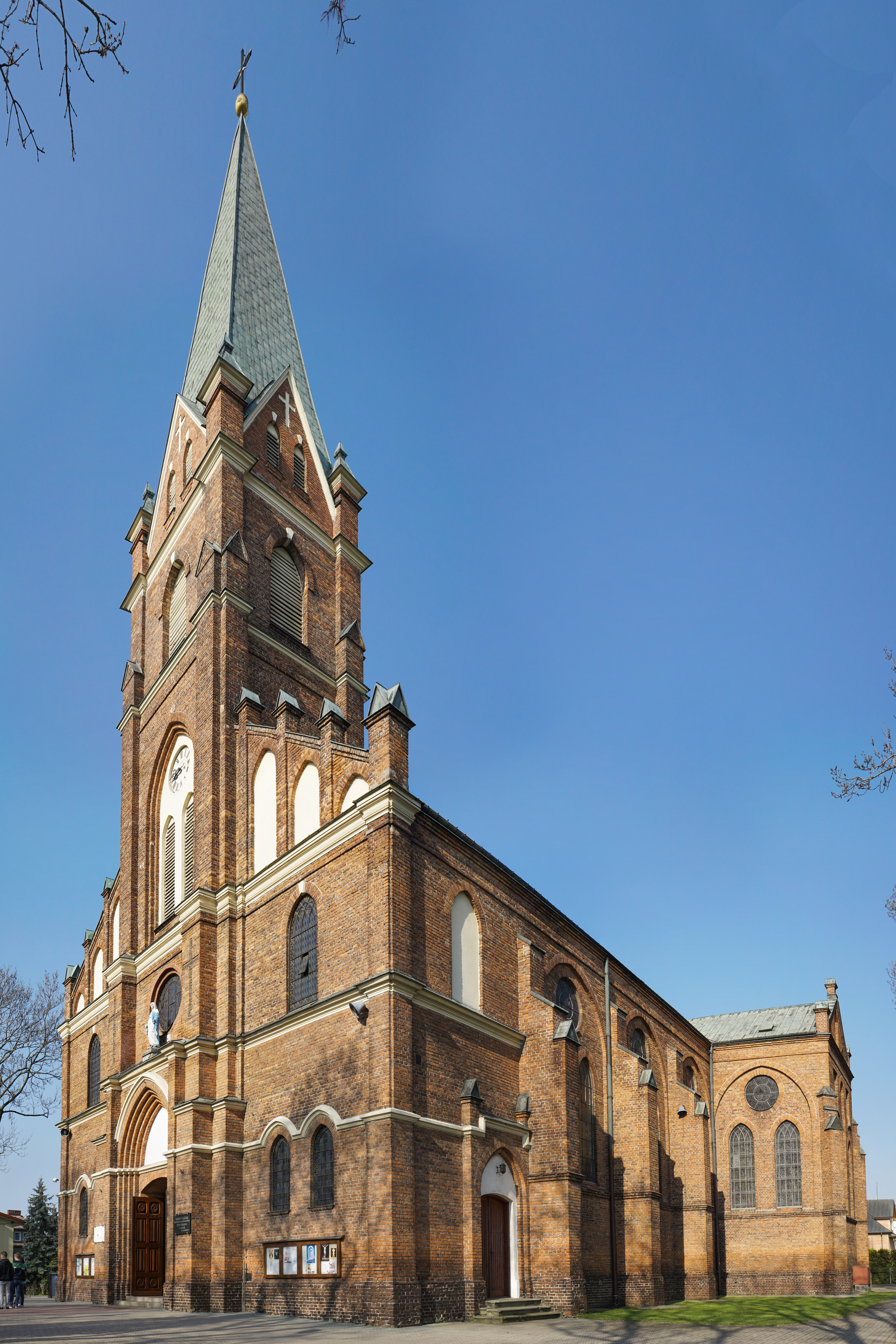 Church of the Immaculate Conception of St. Mary in St. Isidor Parish in Marki